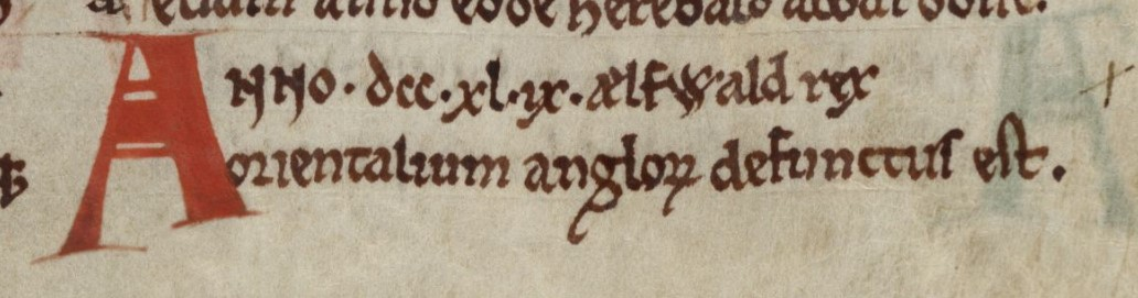 An annal from Simeon of Durham's Historia regum about the death of King Ælfwald of East Anglia.